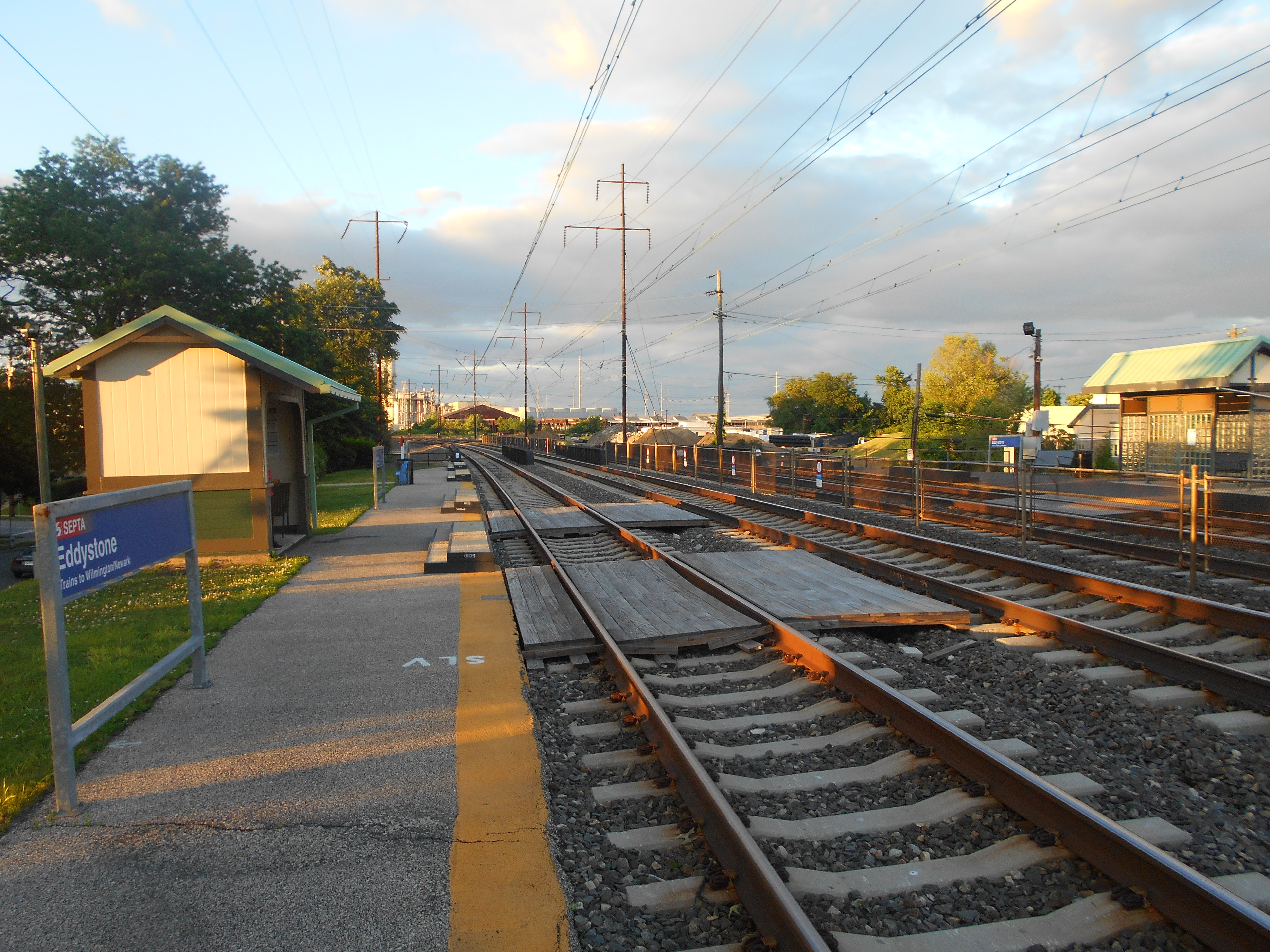 The Eddystone SEPTA Regional Rail station in Eddystone, Pennsylvania.